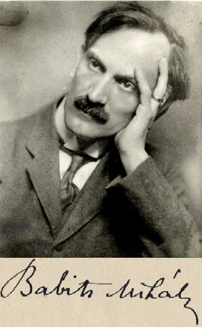 Mihály Babits portrait and signature.